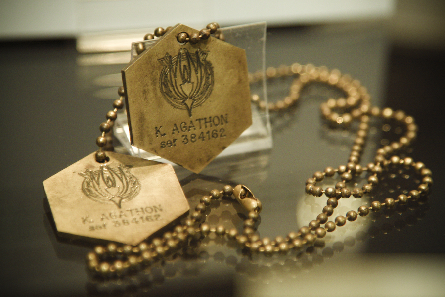 Identifier of Karl Agathon (played by Tahmoh Penikett). Used in Battlestar Gallactica TV series.